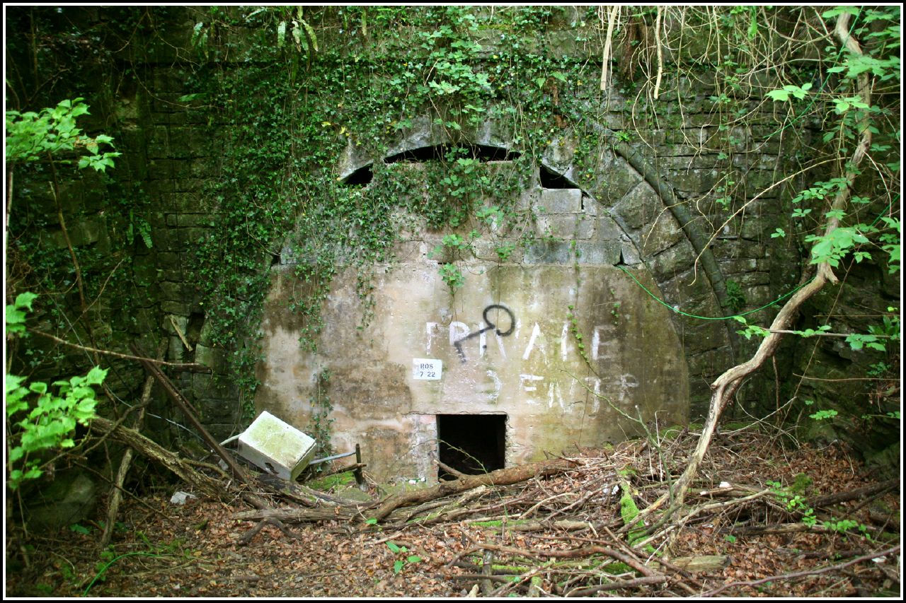 Deep in some woods and half buried, the entrance to a disused railway tunnel at Symonds Yat.